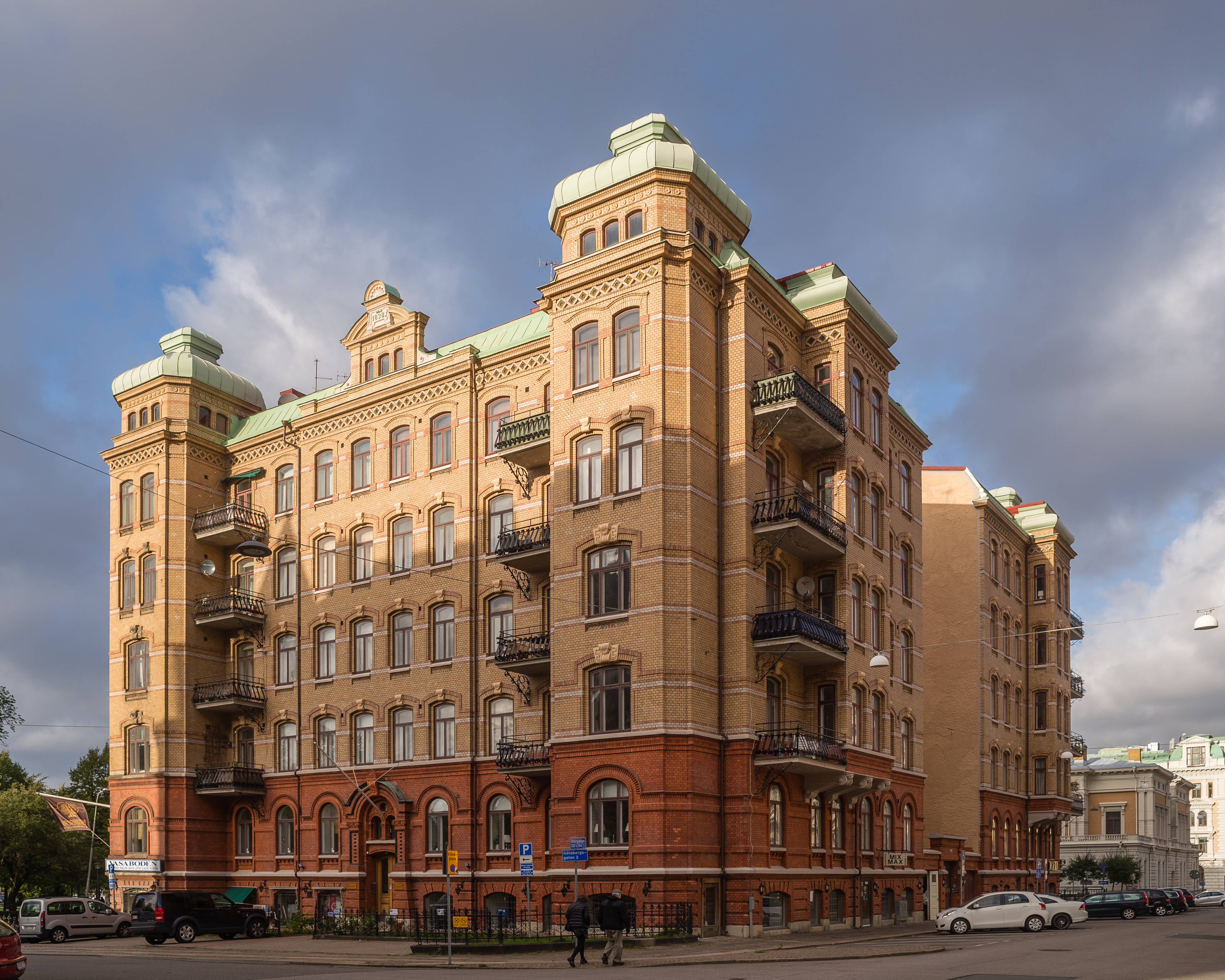 Building in the intersection Götabergsgatan/Storgatan in Gothenburg, Sweden. Built 1898, architect Hjalmar Cornilsen.